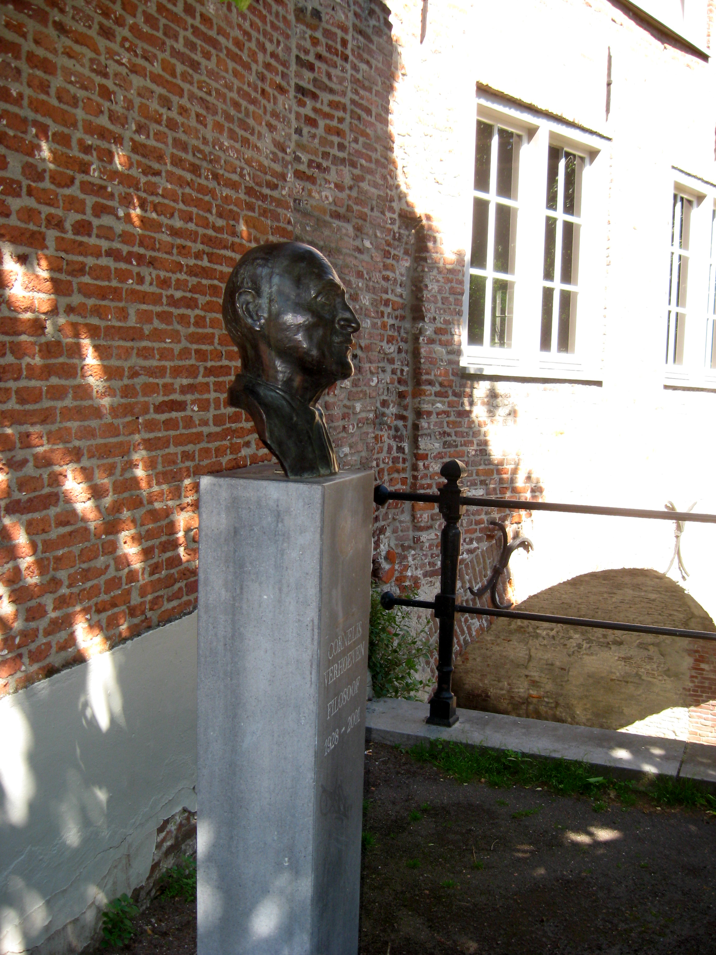 Cornelis Verhoeven